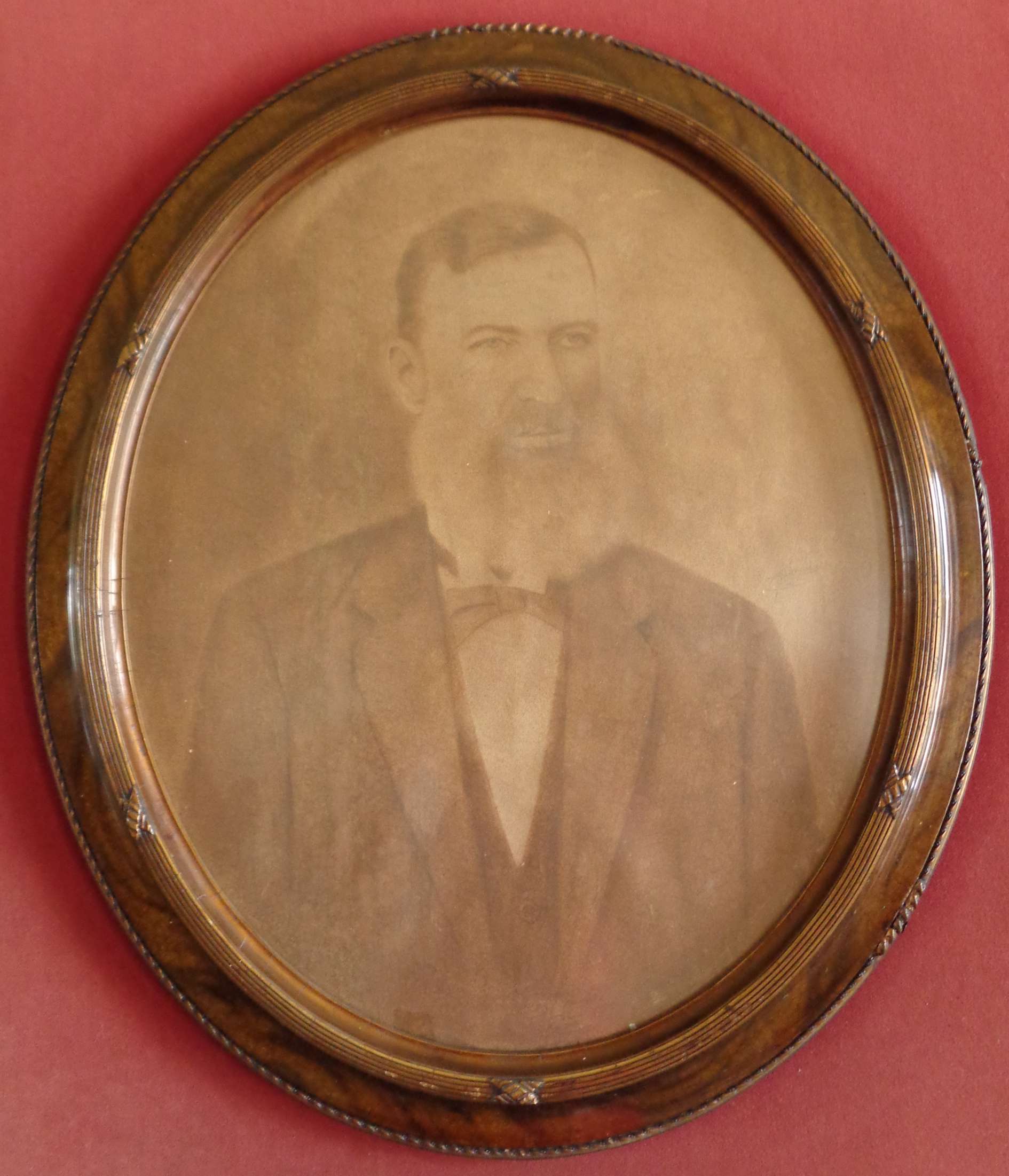 Picture of Antonio Rodrigues da Cunha, first and only Baron of Aymorés, exposed in the Municipal Historical Museum of São Mateus-ES